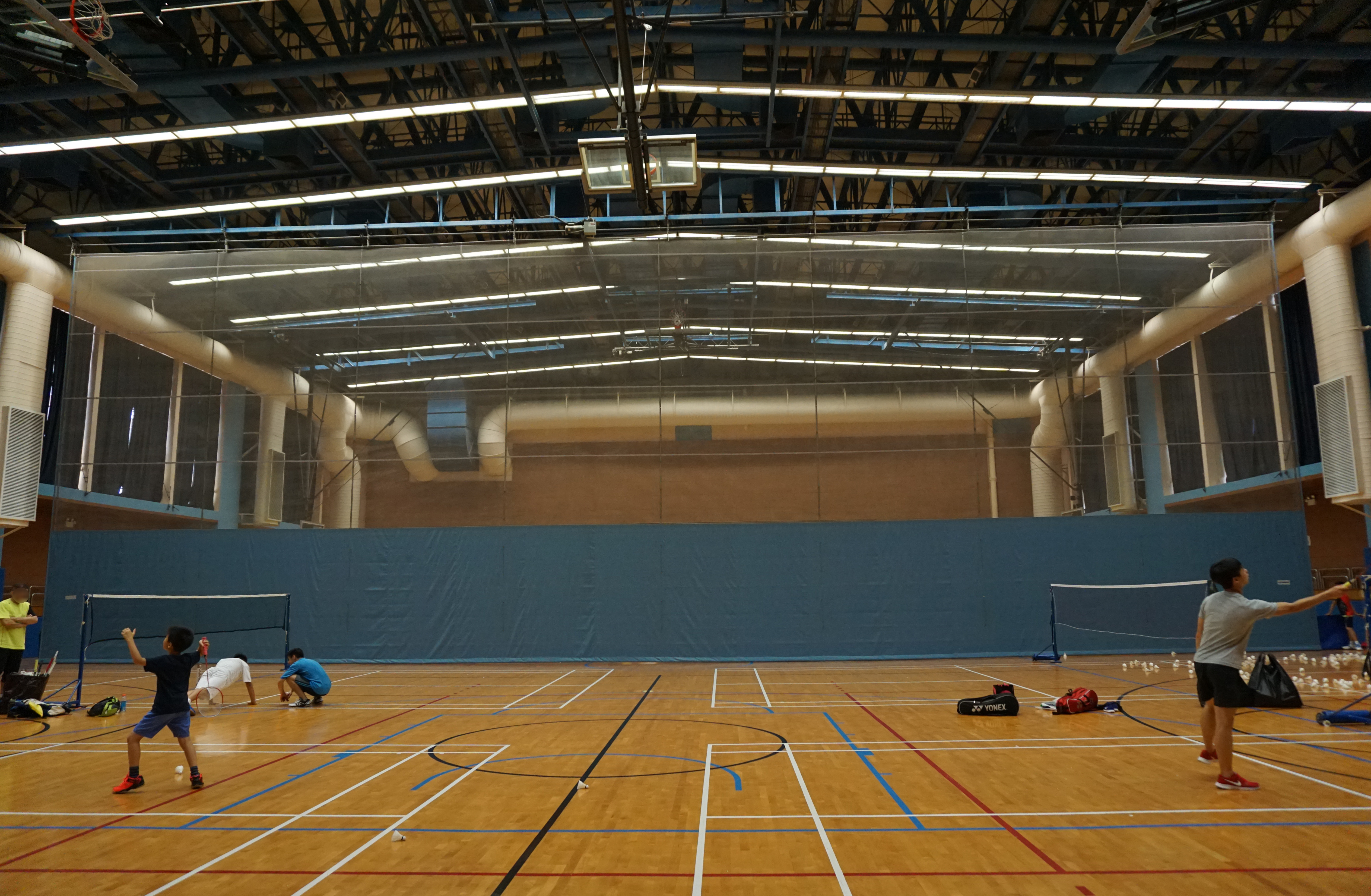 Kwun Chung Sports Centre in Jordan, Hong Kong.